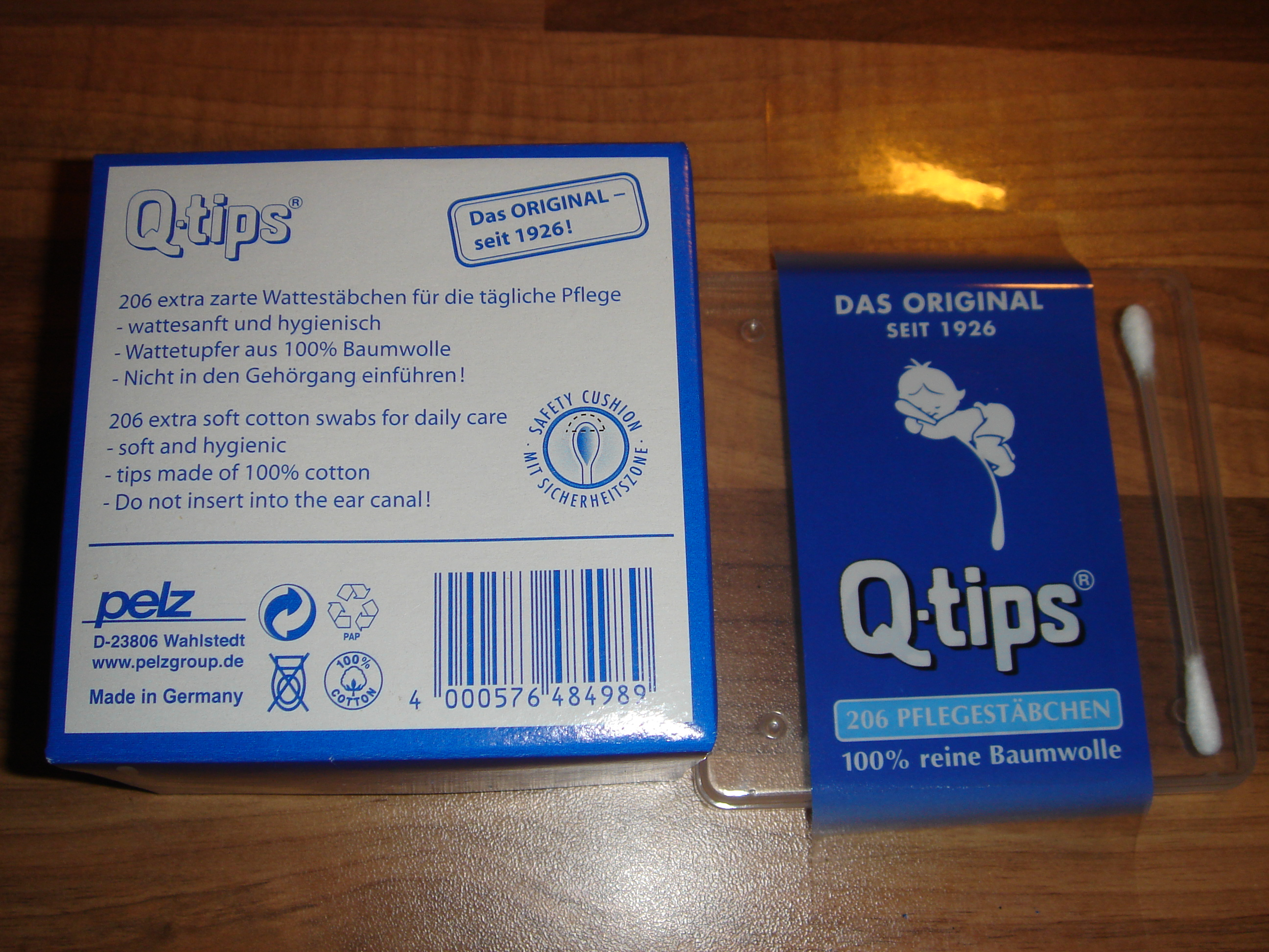 Q-Tips (German)